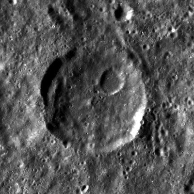 Khvol'son lunar crater - LROC image